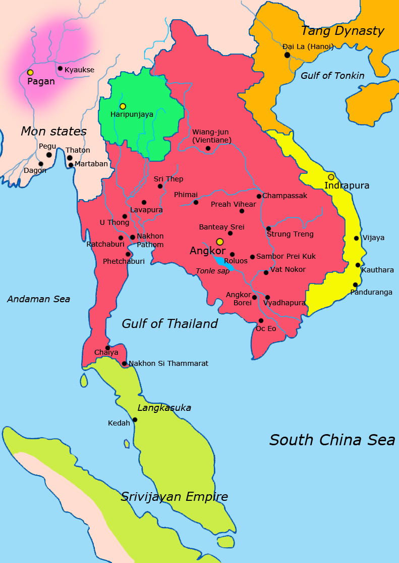 Map of Southeast Asia circa 900 CE, showing the Khmer Empire in red, Champa in yellow and Haripunjaya in light Green plus additional surrounding states. sources i used for this work include Atlas of world history, Patrick Karl O'brien Societies, Networks, and Transitions: A Global History, Volume B. Craig A.Lockard File:DvaravatiMapThailand.png